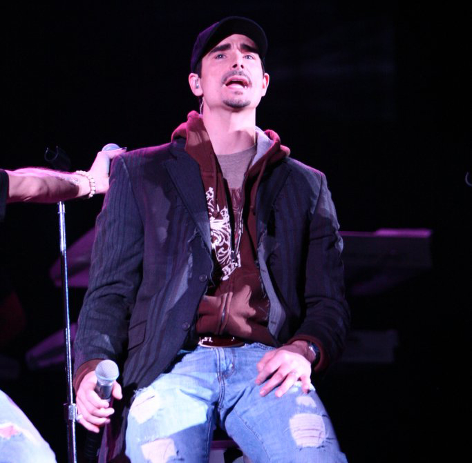 Cropped version